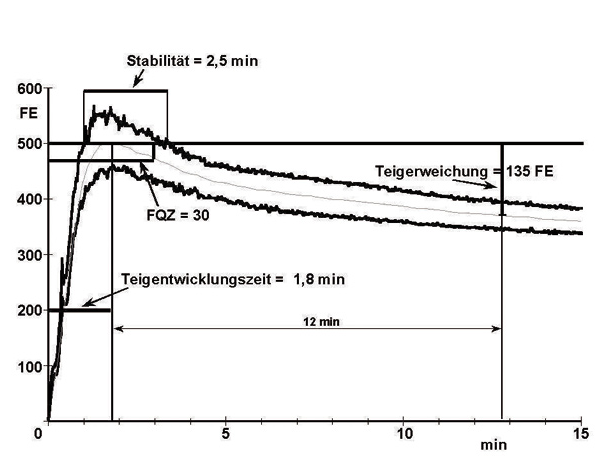 Farinogram for evaluating the properties of the dough (dough development time, stability, dough softening)